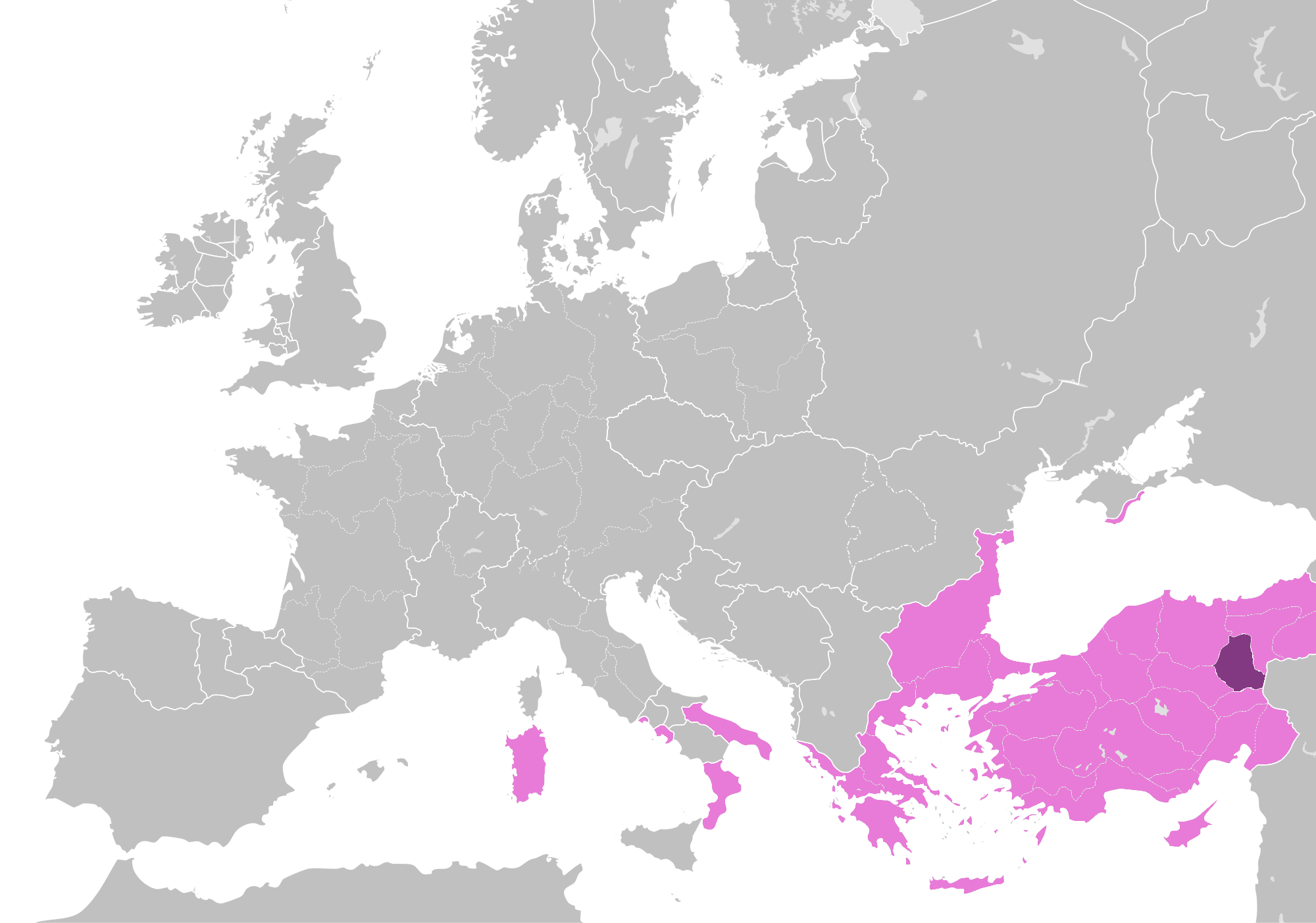 Map of the Sebastea Theme within the Byzantine Empire in 1000 AD. Based on